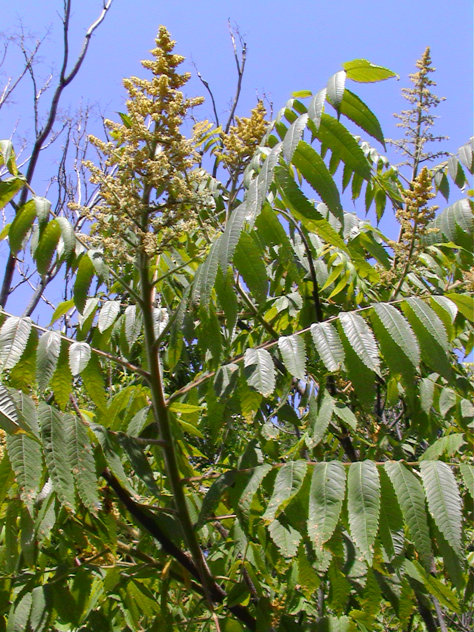 Male flowers of Rhus typhina.